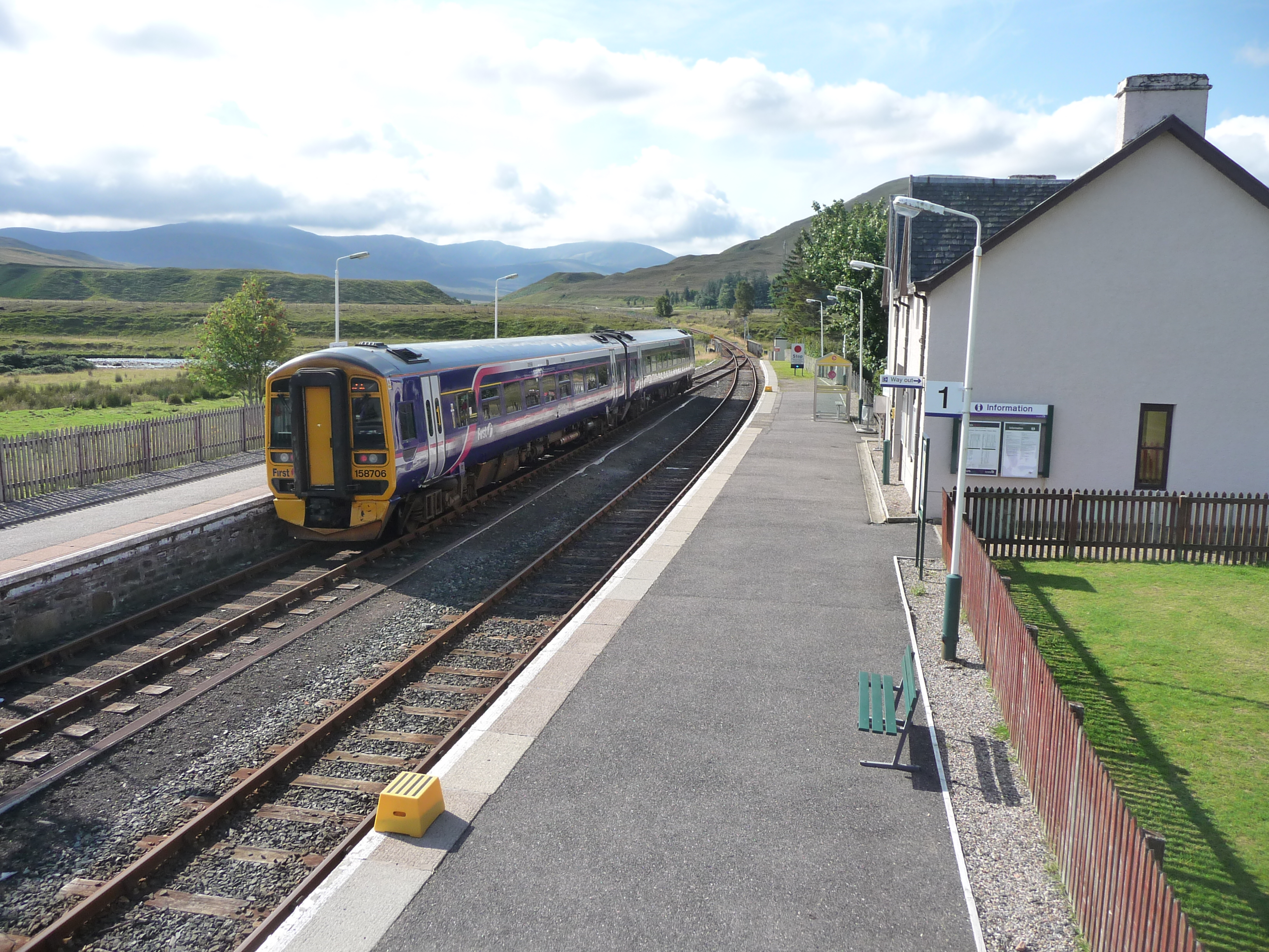 A Kyle of Lochalsh Express 158706 departs Achnasheen Station, September 2008.